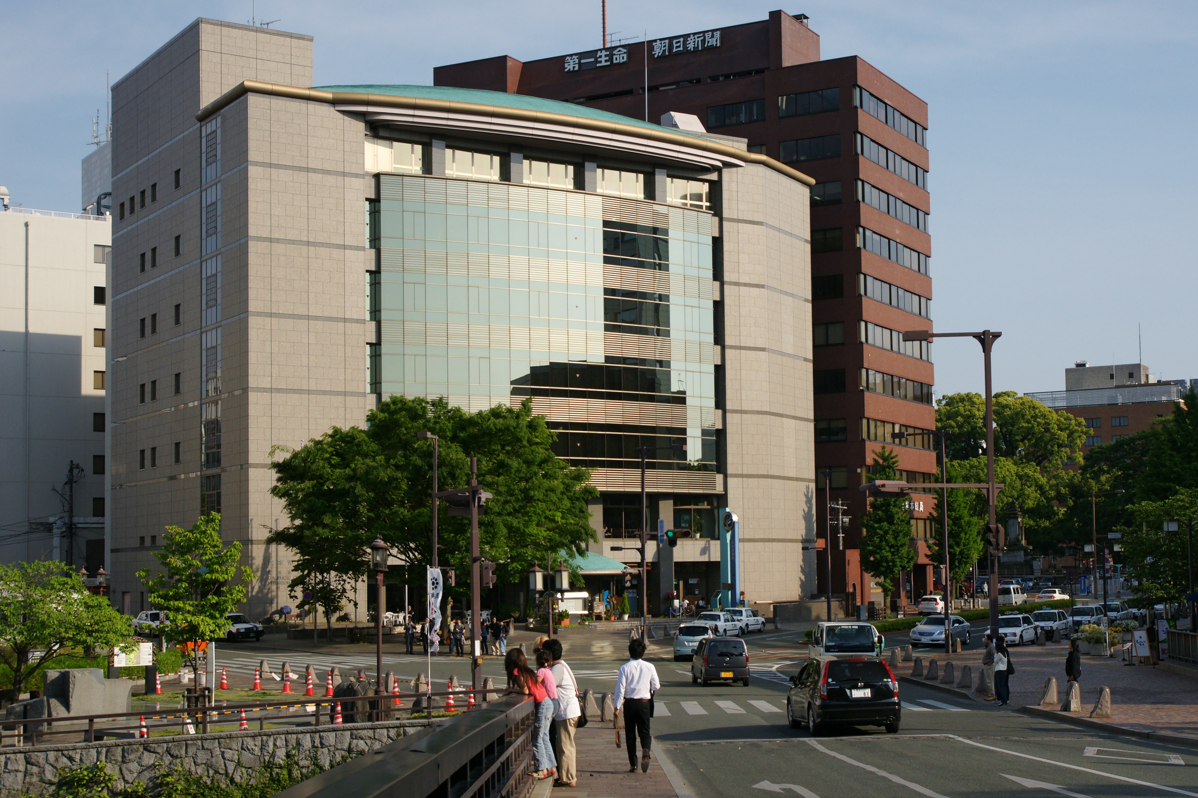 Kumamoto City International Center, Kumamoto, Kumamoto prefecture, Japan